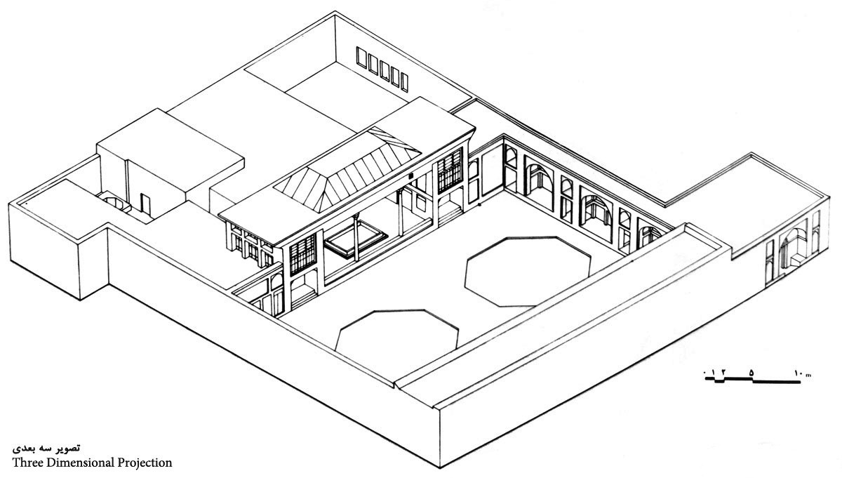 House of Sheikholeslam in Esfahan- 3 Dimensional Projection. The house is 1650 Square Meter (17,760 Square Feet) with 682 Square Meter (7340 Square Feet) building.